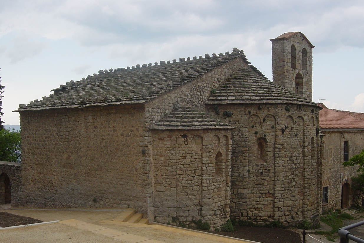 Hermitage of Santa Cecília at the slope of the Mountain of Montserrat (Catalonia)